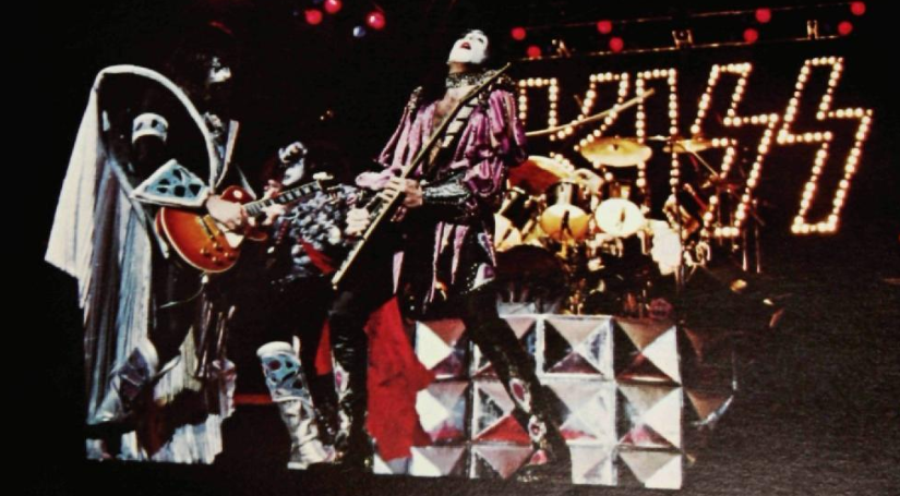 Rock band Kiss performing live in 1979.